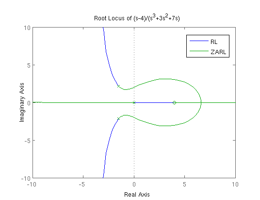 This is a MATLAB screenshot of rlocus plot of .